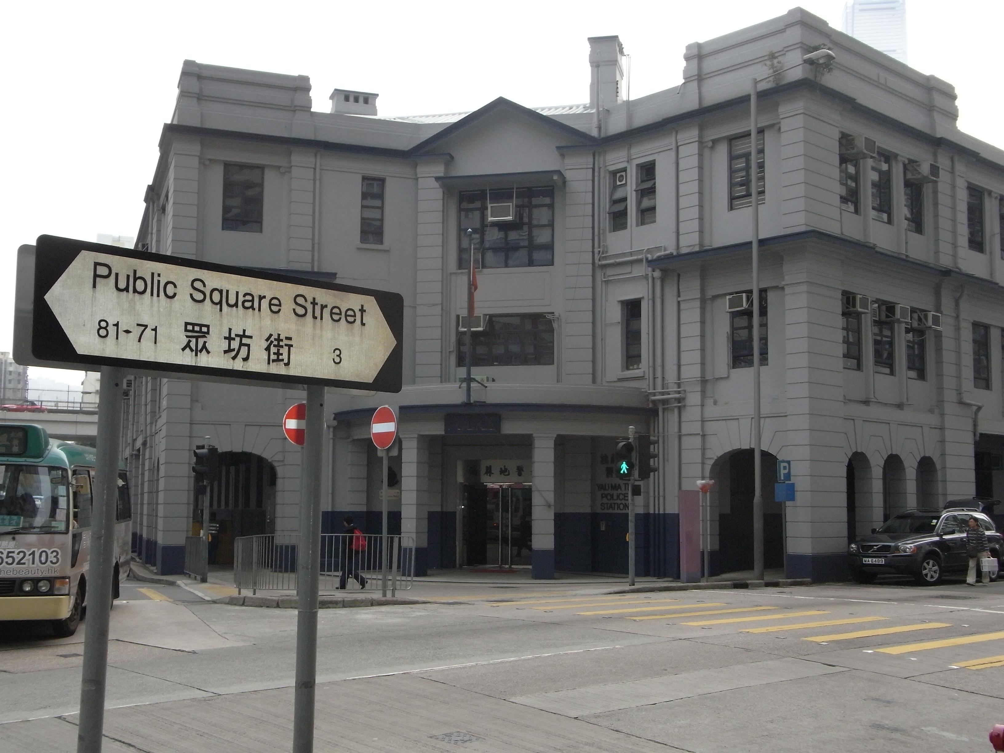 油麻地 油麻地警署 眾坊街